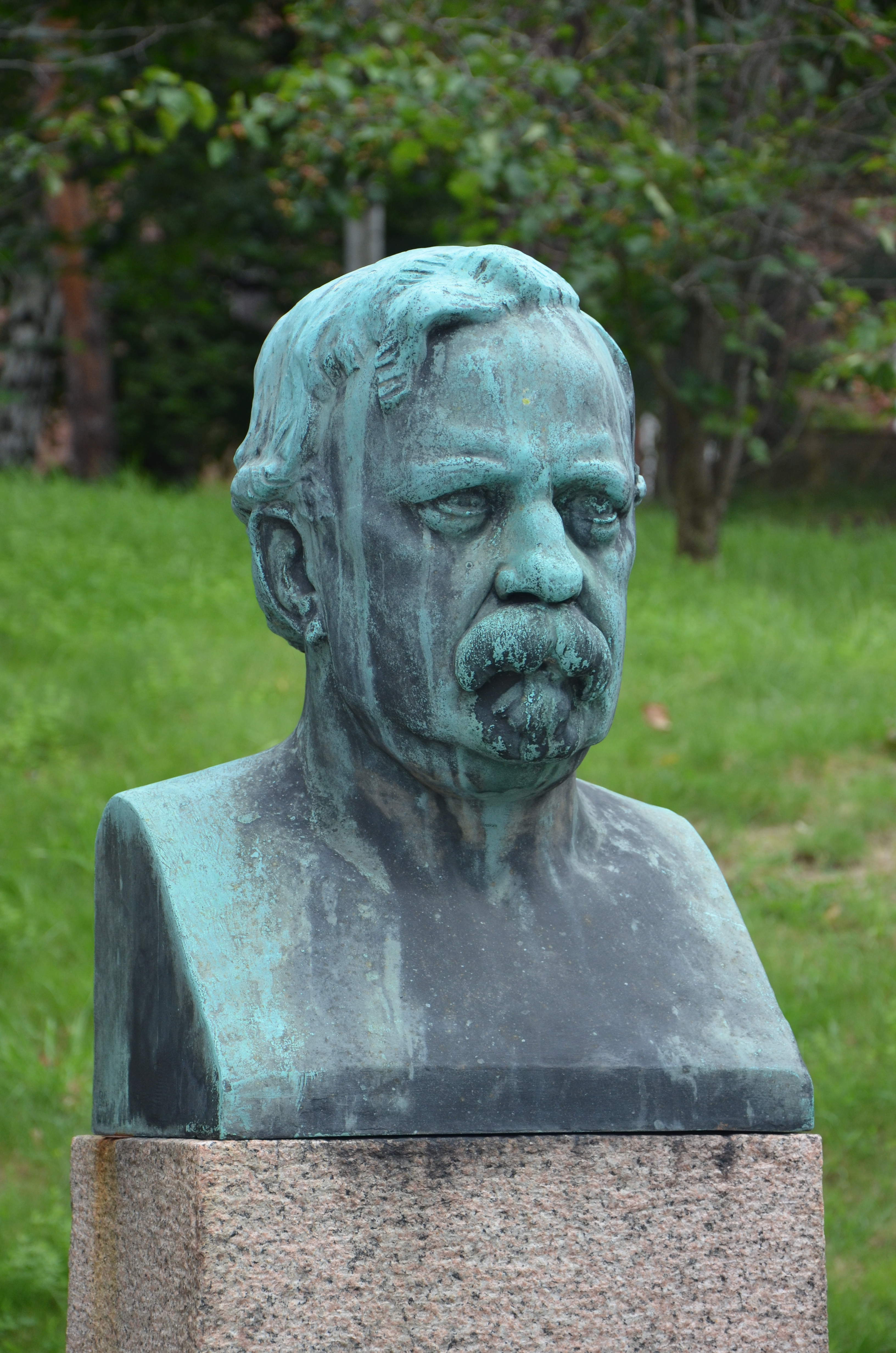 Porträttbyst av Edvard Welander, omedelbart väster om västra gaveln på Karoliska sjukhusets huvudbyggnad, Solna